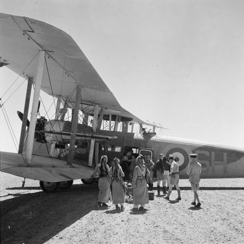 Royal Air Force Operations in the Middle East and North Africa, 1939-1943. A Vickers Valentia of No. 216 Squadron RAF based at Heliopolis, Egypt, at the landing ground at H4 pumping station on the Iraq Petroleum Company pipeline in Transjordan. Arab Legionnaires stand guard as personnel and supplies are unloaded at H4, which had become the RAF Advanced Headquarters for operations against the rebels in Iraq.